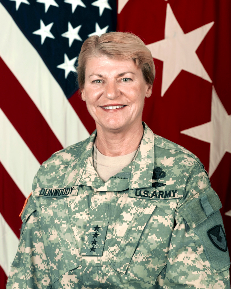 General Ann E. Dunwoody, Commanding General, U.S. Army Materiel Command. Dunwoody was the first female four-star general in US history